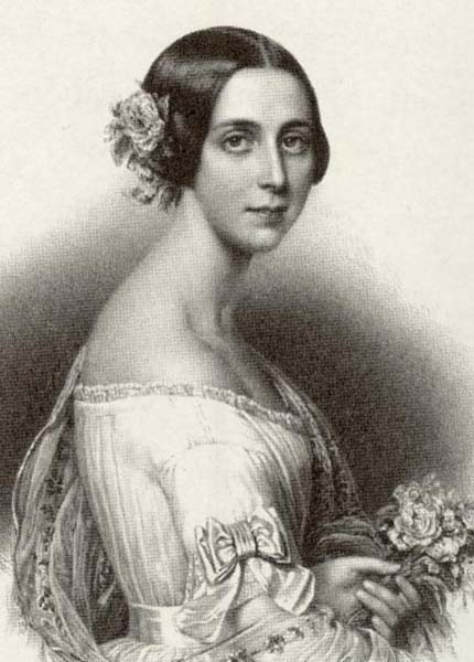 Princess Eugenie of Sweden and Norway (1830-1889)